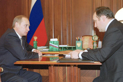 THE KREMLIN, MOSCOW. President Putin with Transport Minister Sergei Frank.